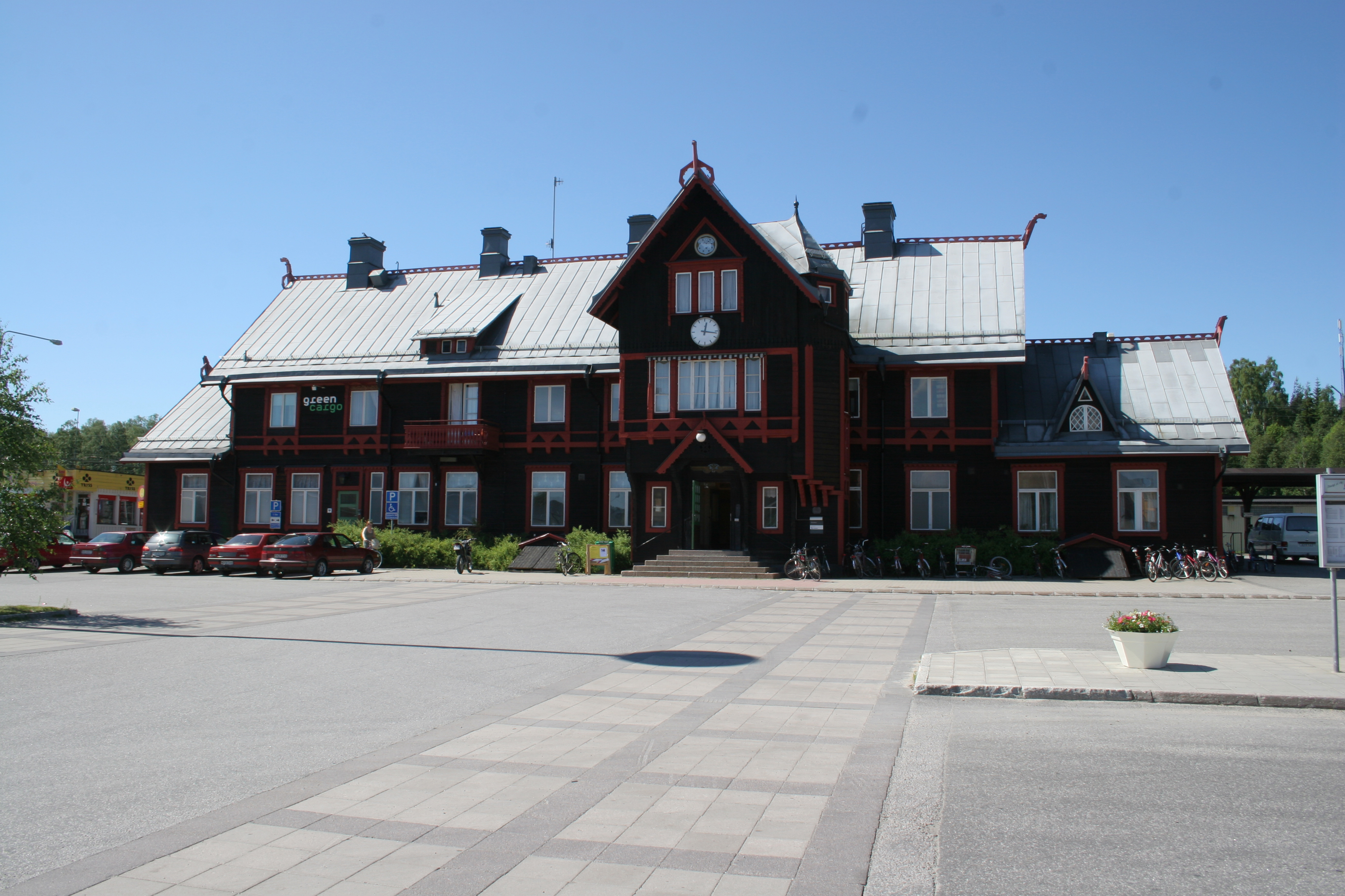 The railwaystation of Vännäs, Västerbotten, Sweden.